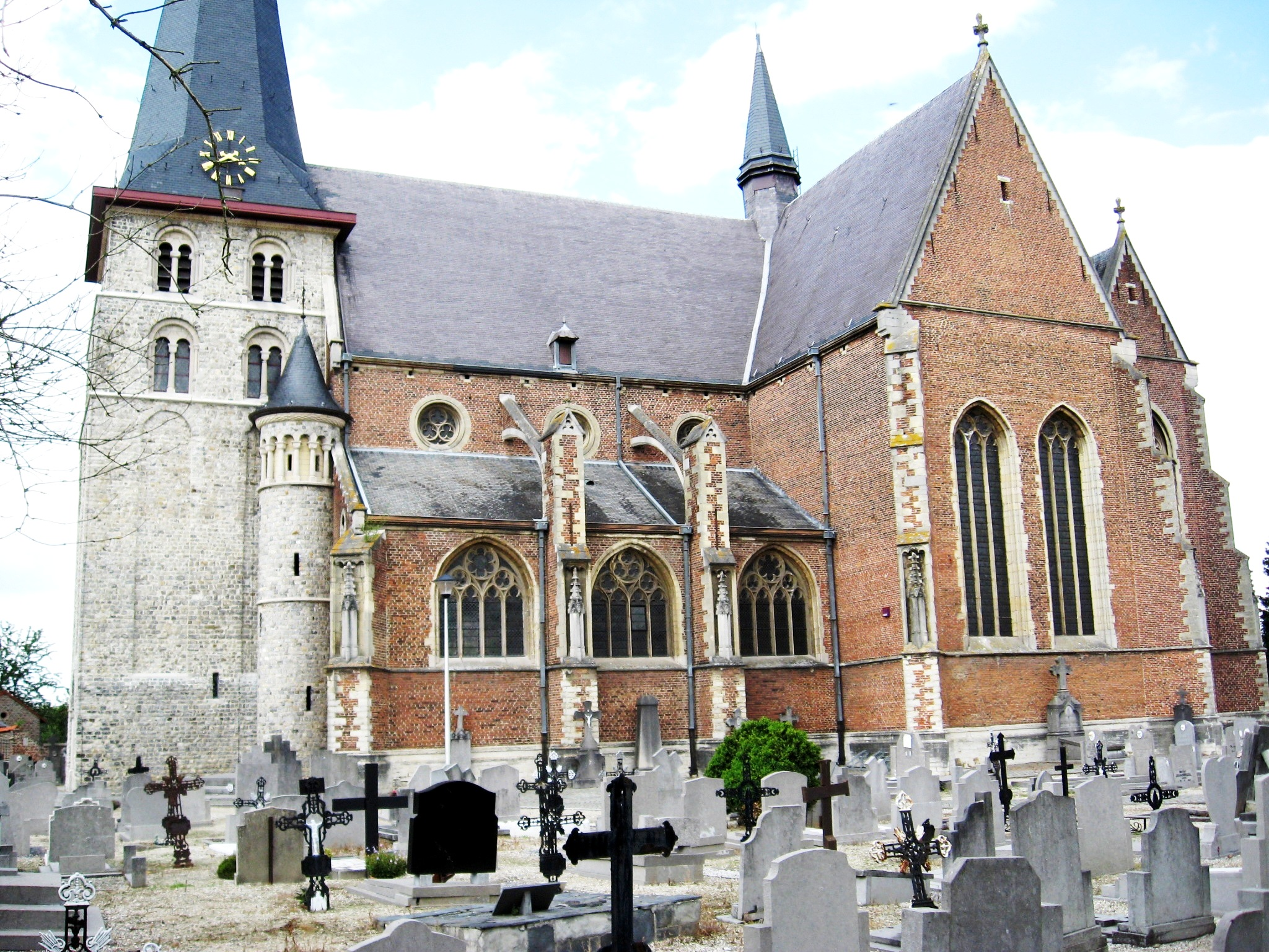 Church of Saint Genevieve in Zepperen, Sint-Truiden, Limburg, Belgium